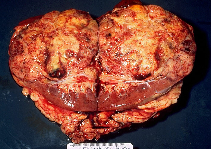 ID#: 863 Description: Gross pathology of bisected kidney showing large renal cell carcinoma. Much of the kidney has been replaced by gray and yellow tumor tissue. A little remaining renal cortex and pericapsular fat are visible at the bottom of this surgical specimen. Cancer. Content Providers(s): CDC/Dr. Edwin P. Ewing, Jr. Creation Date: 1972 Copyright Restrictions: None - This image is in the public domain and thus free of any copyright restrictions. As a matter of courtesy we request that the content provider be credited and notified in any public or private usage of this image.